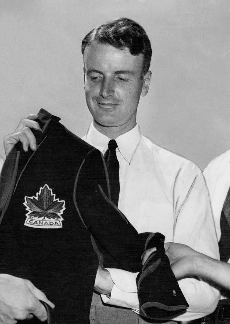 Toronto men bound for Olympics seen admiring a Canadian blazer: Paul McLaughlin. He will compete in sailing races when he reaches England